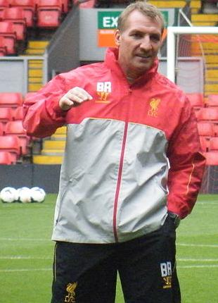 Brendan Rodgers and Iago Aspas during open training session at Anfield in August 2013.